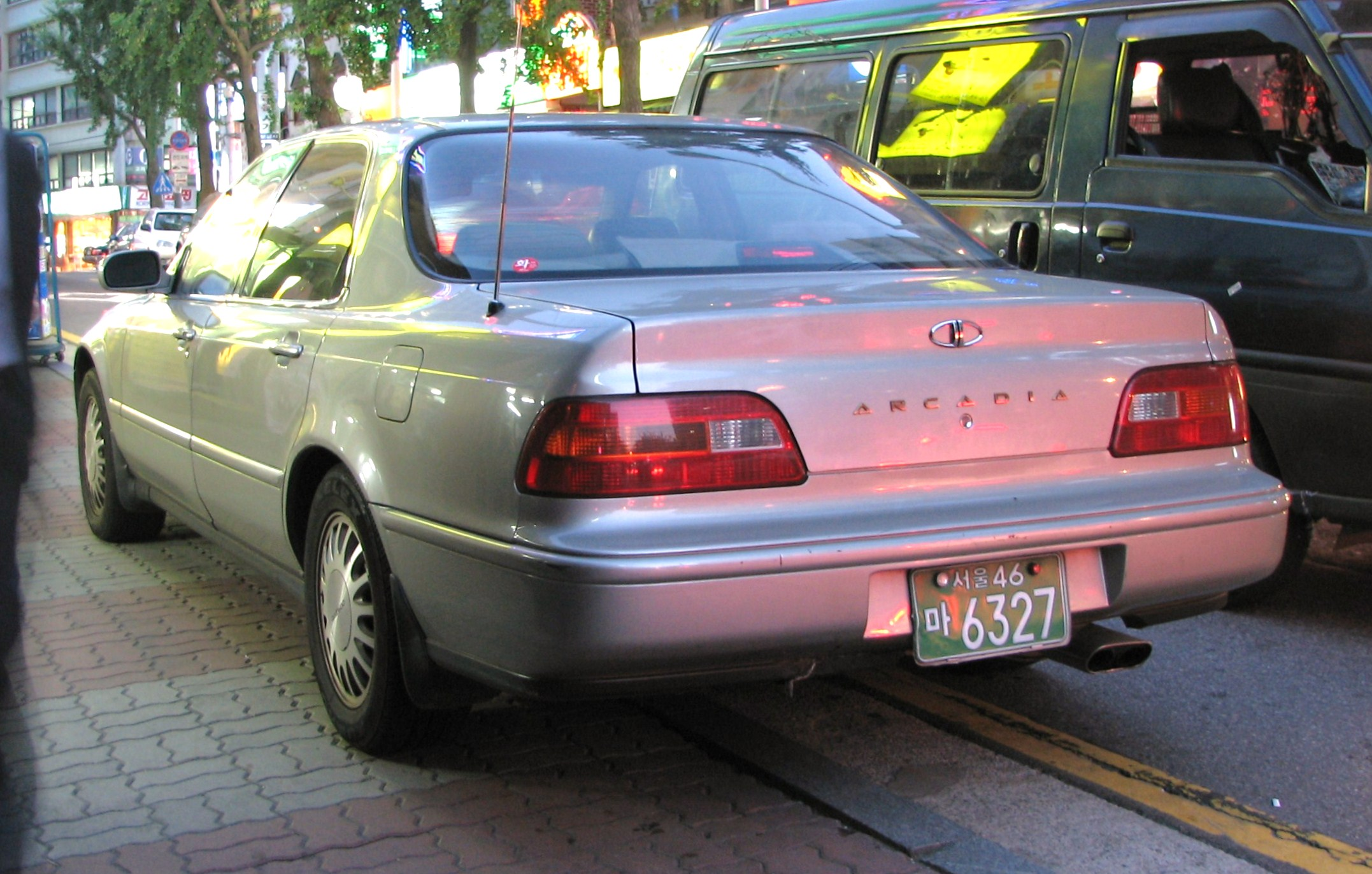 Daewoo Arcadia